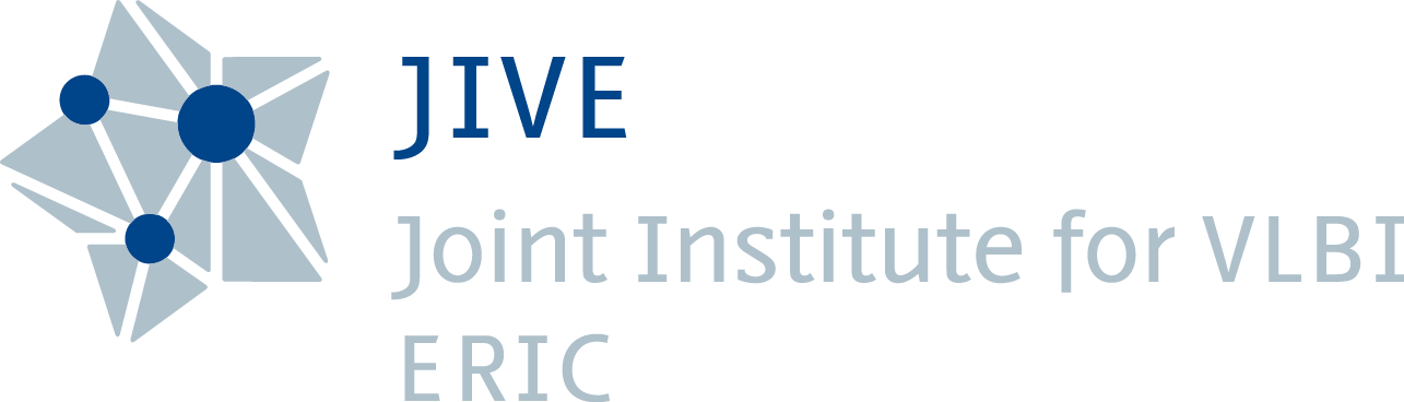 Full JIVE logo reading Joint Institute for VLBI ERIC